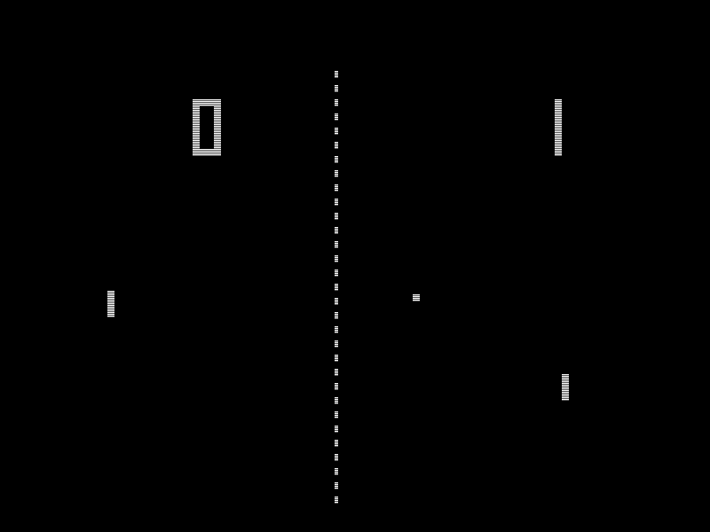 Screenshot of PONG from the Atari Arcade Hits #1 software title released Hasbro Interactive - a conversion of the original 1972 Atari Pong